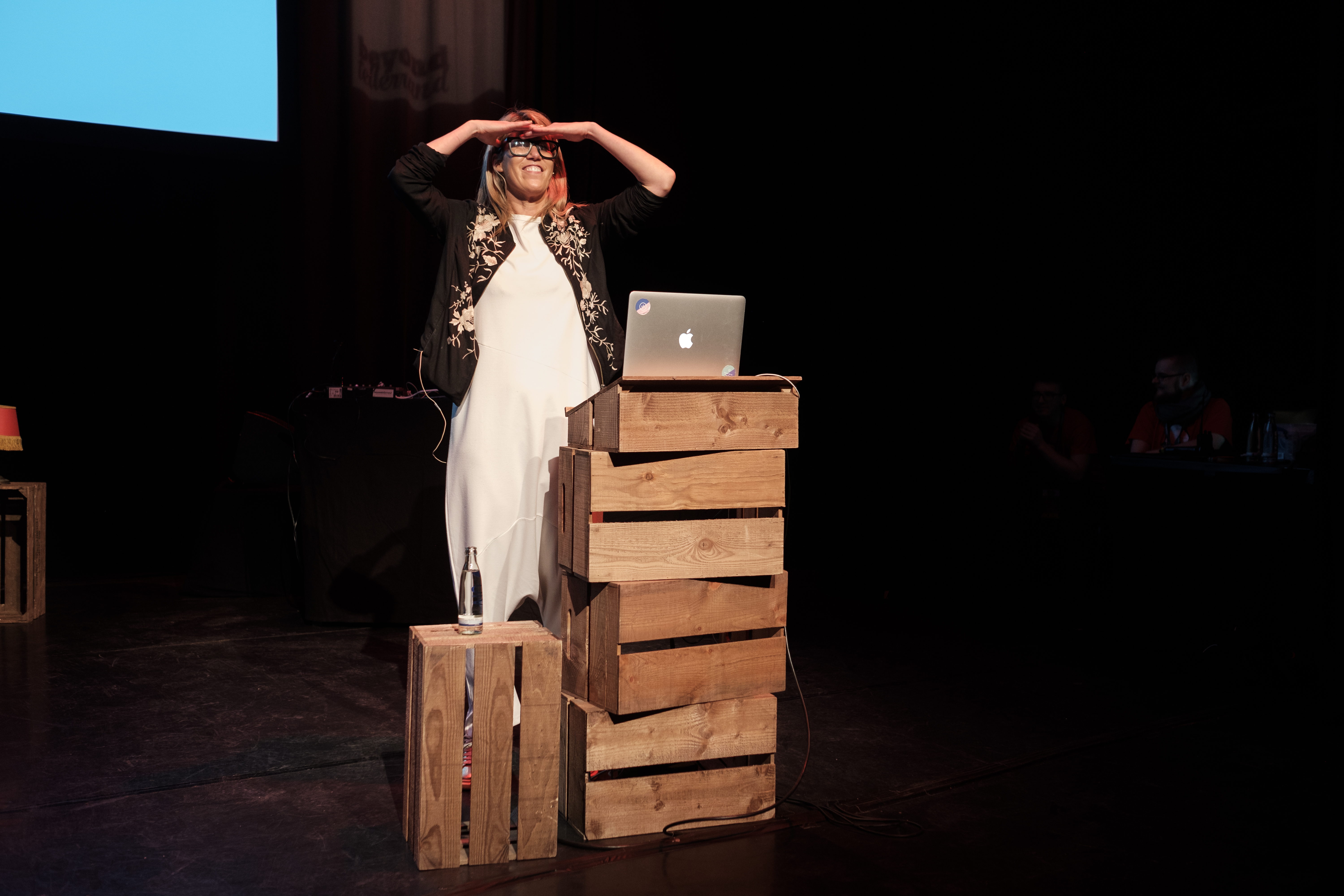 Pip Jamieson beyond tellerrand Berlin 06 - 08 Nov 2017